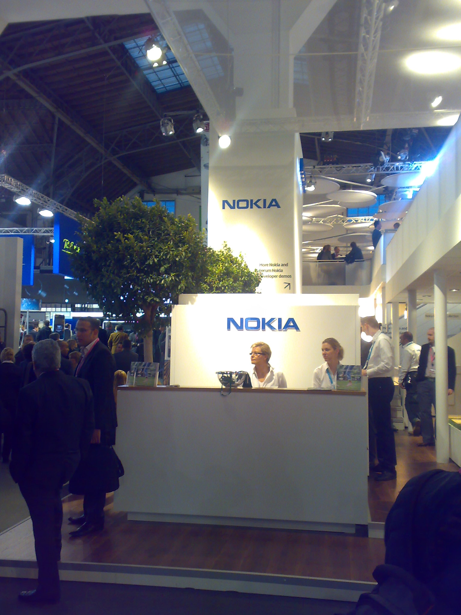 Nokia stand at GSMA barcelona 2008